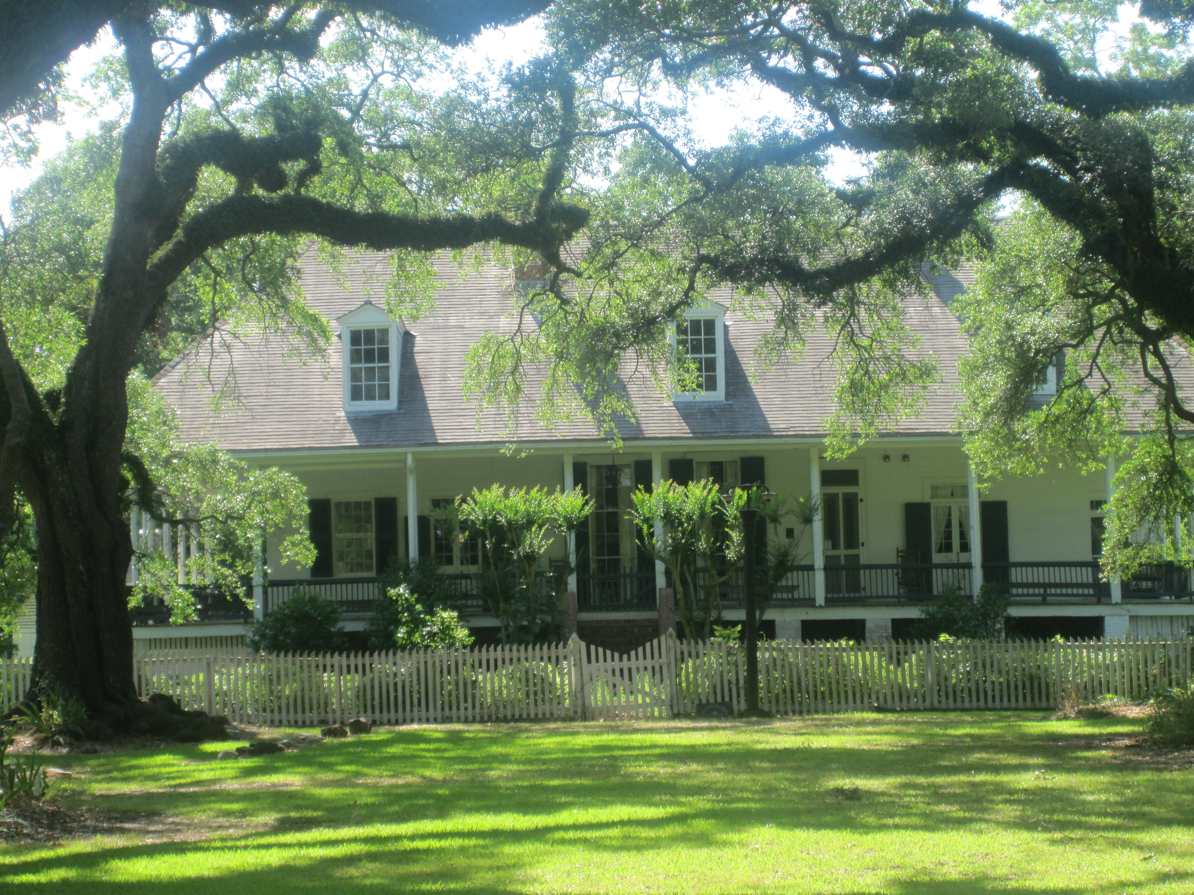 Oakland Plantation house from the highway — near Natchitoches, Louisiana. I took photo with Canon camera.